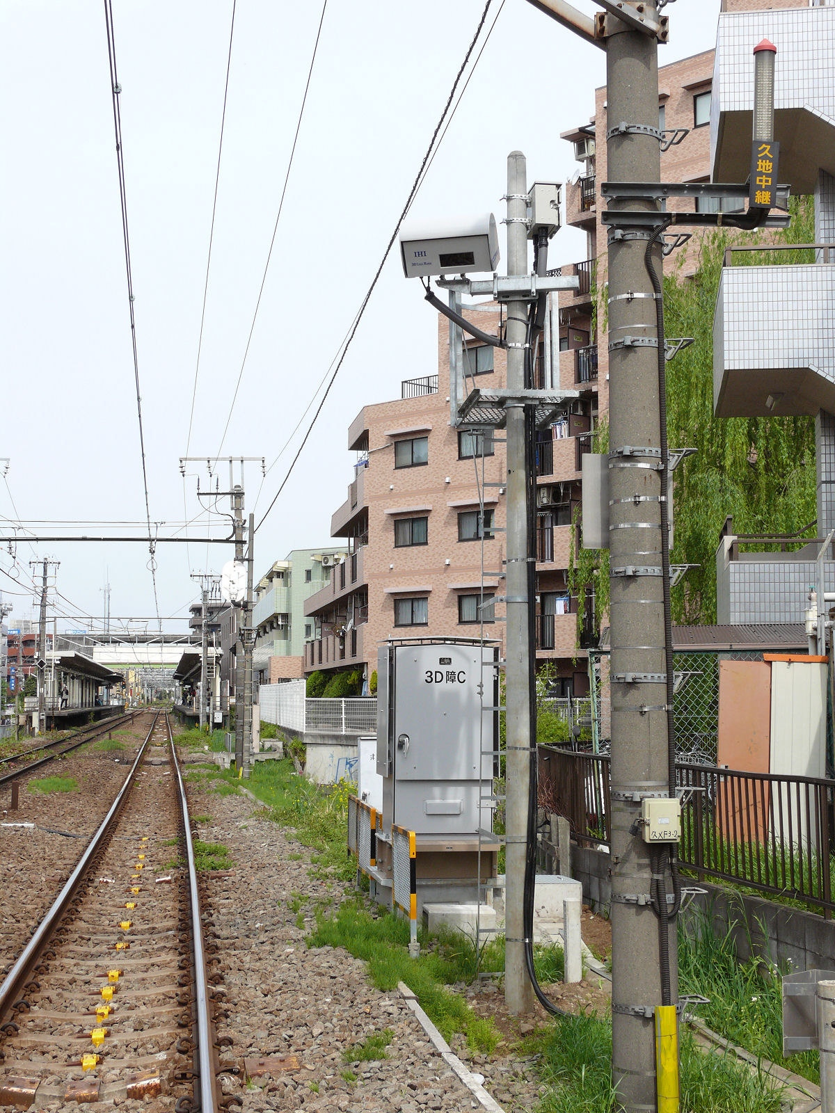 3D Laser Radar system.